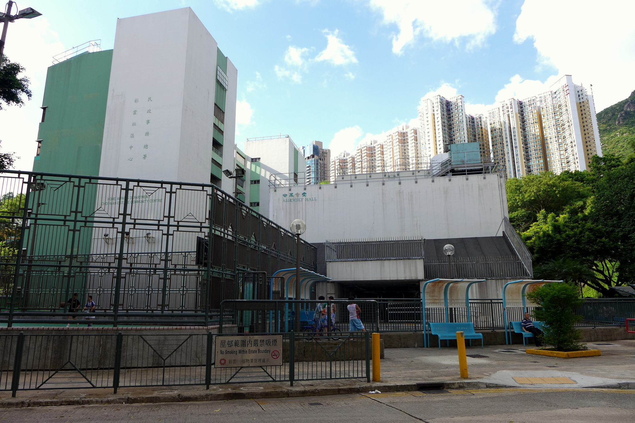 Choi Wan Community Hall